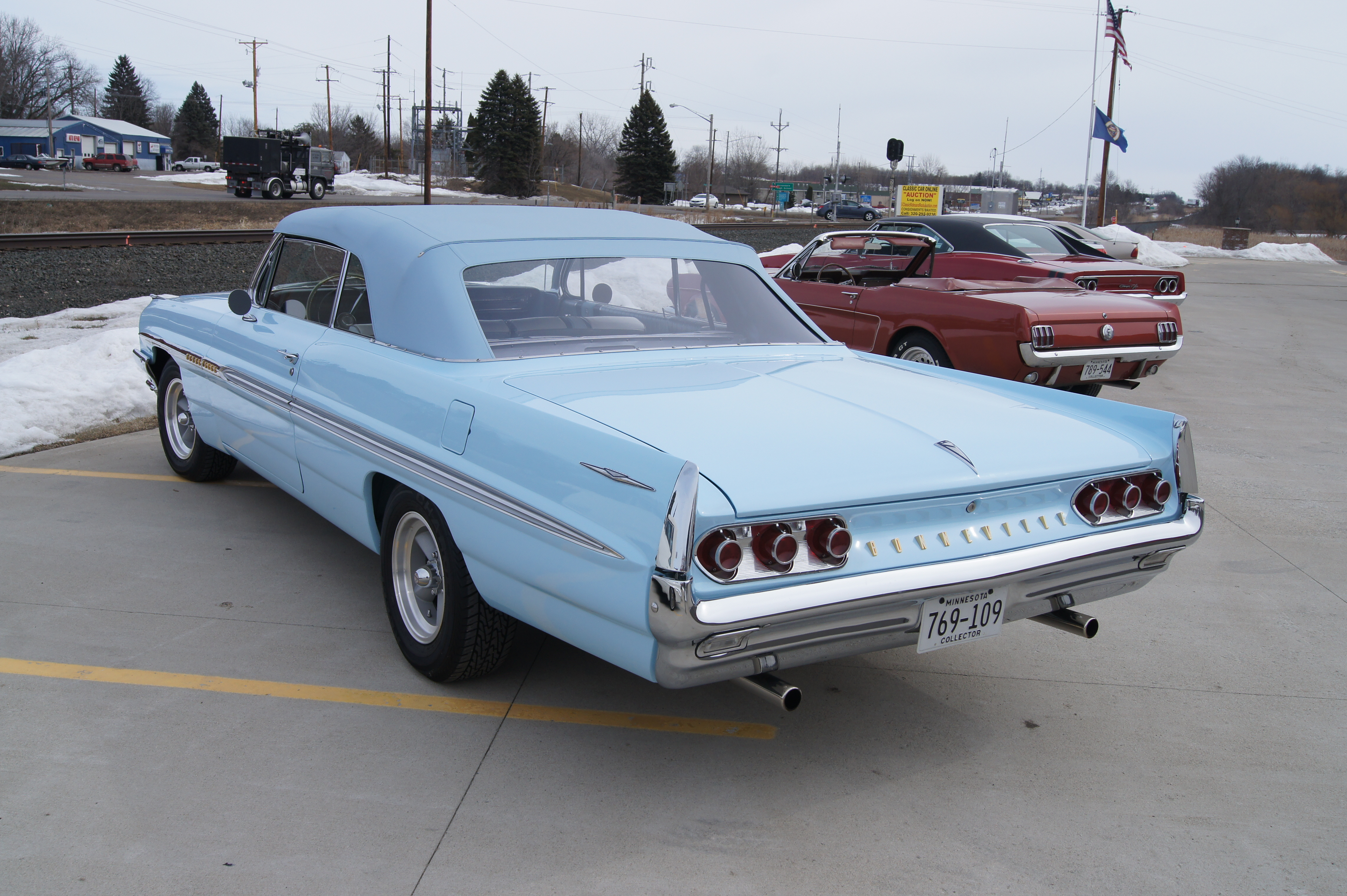 Follow this link for more car pictures: 1961 Pontiac Bonneville Convertible.389 V-8 Tri-power4spd Frame off restoration in 2007, new convertible top, new interior SMS door panels, SMS fabric for interior. PHS history. This is a rare Optioned 4 speed, Tri power, posi. No Air. No PS or PB or electric seats. Engine, Transmission and rear end all rebuilt and all numbers matching